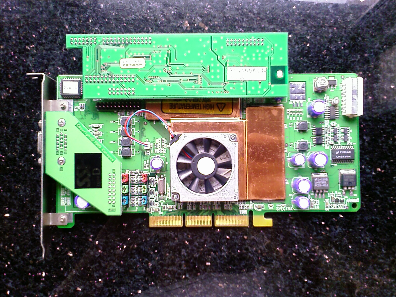 Canopus GeForce2 Ultra Graphic card